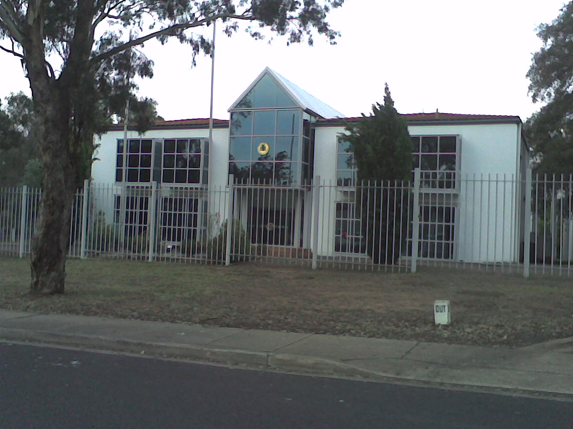 Embassy of Spain in Canberra, Australia.